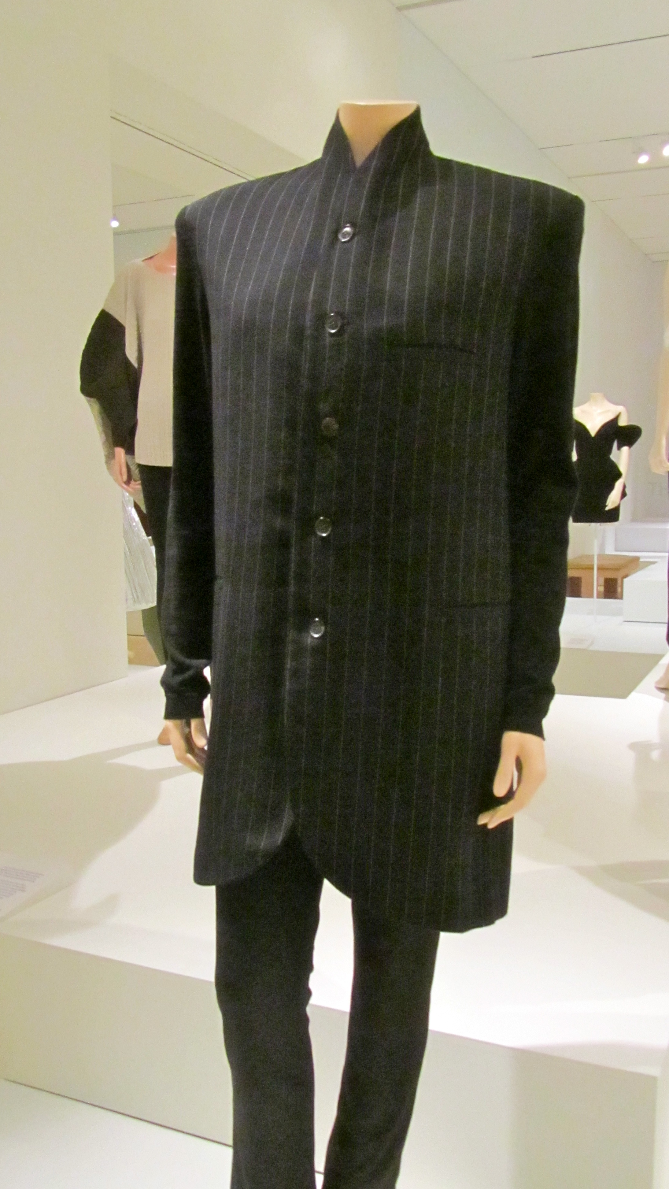 Yohji Yamamoto design wool suit around 1990